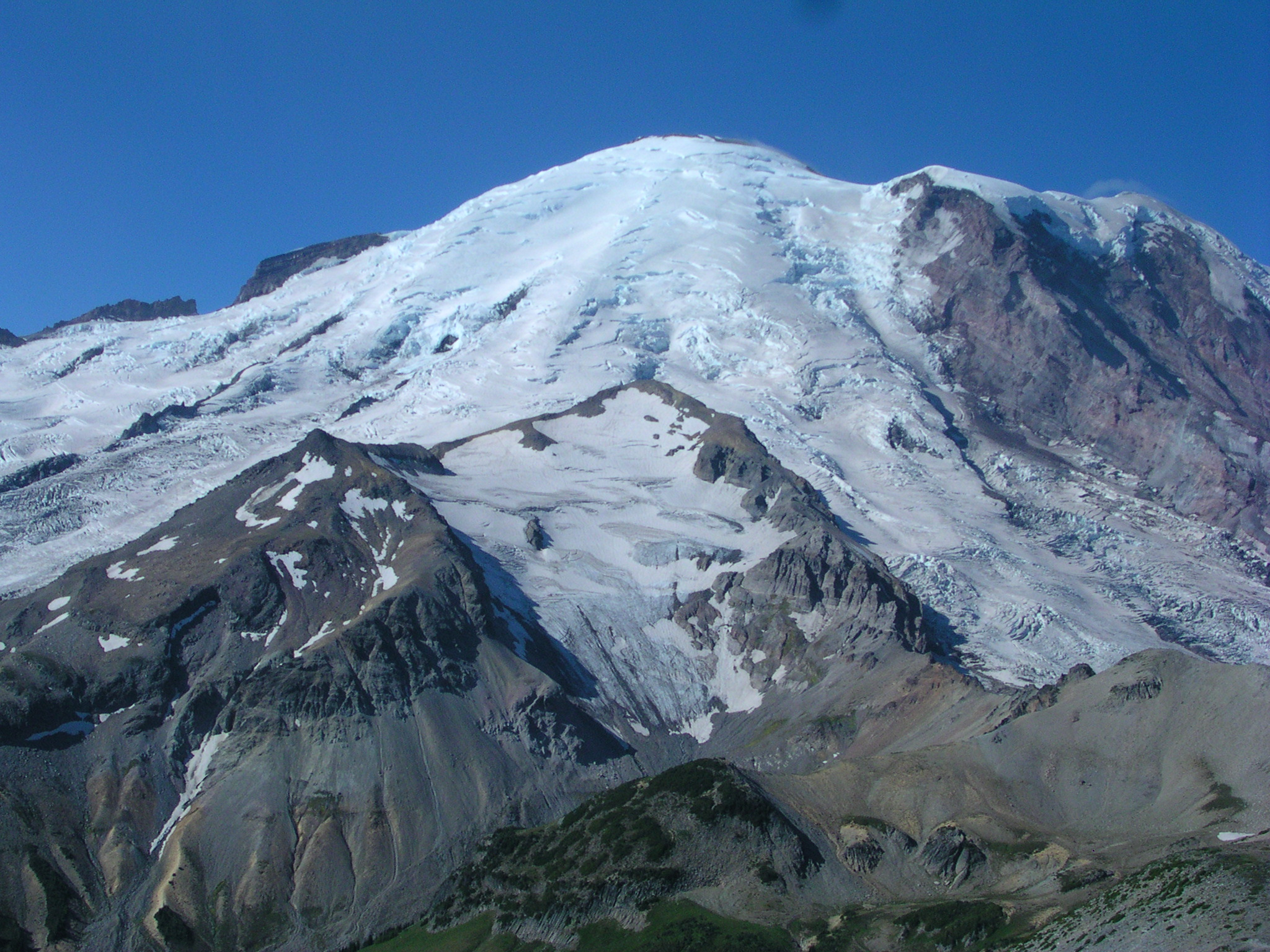 Mount Rainier from Burroughs Mountain 2, with Steamboat Prow center. Winthrop Glacier to the right.